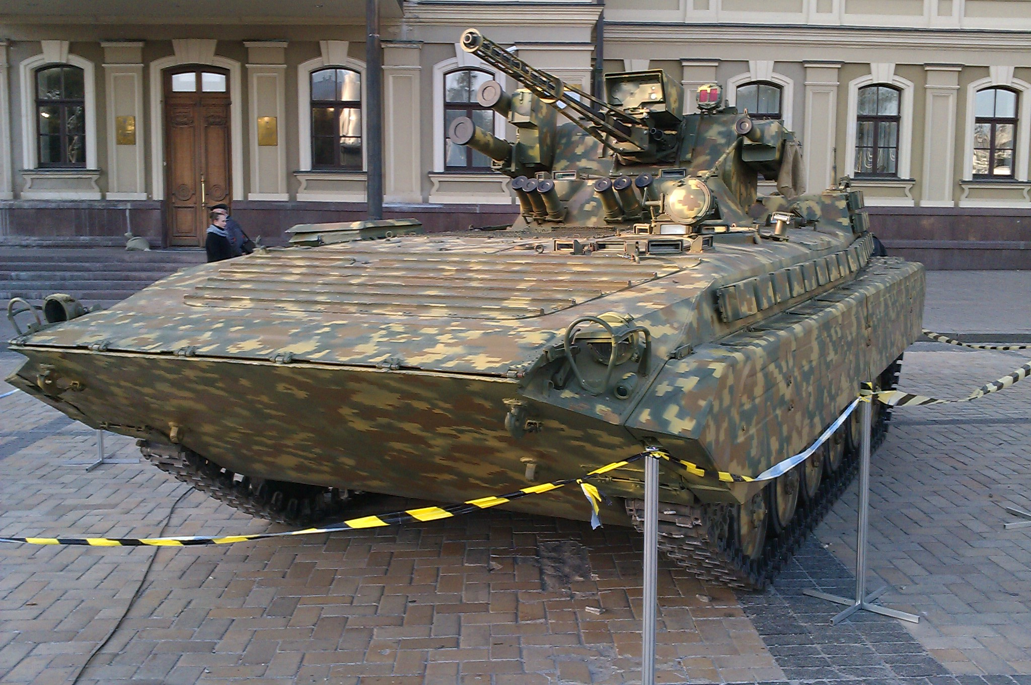 BMP-1UM at the exhibition «The Power of unconquered» on the Day of the defender of Ukraine